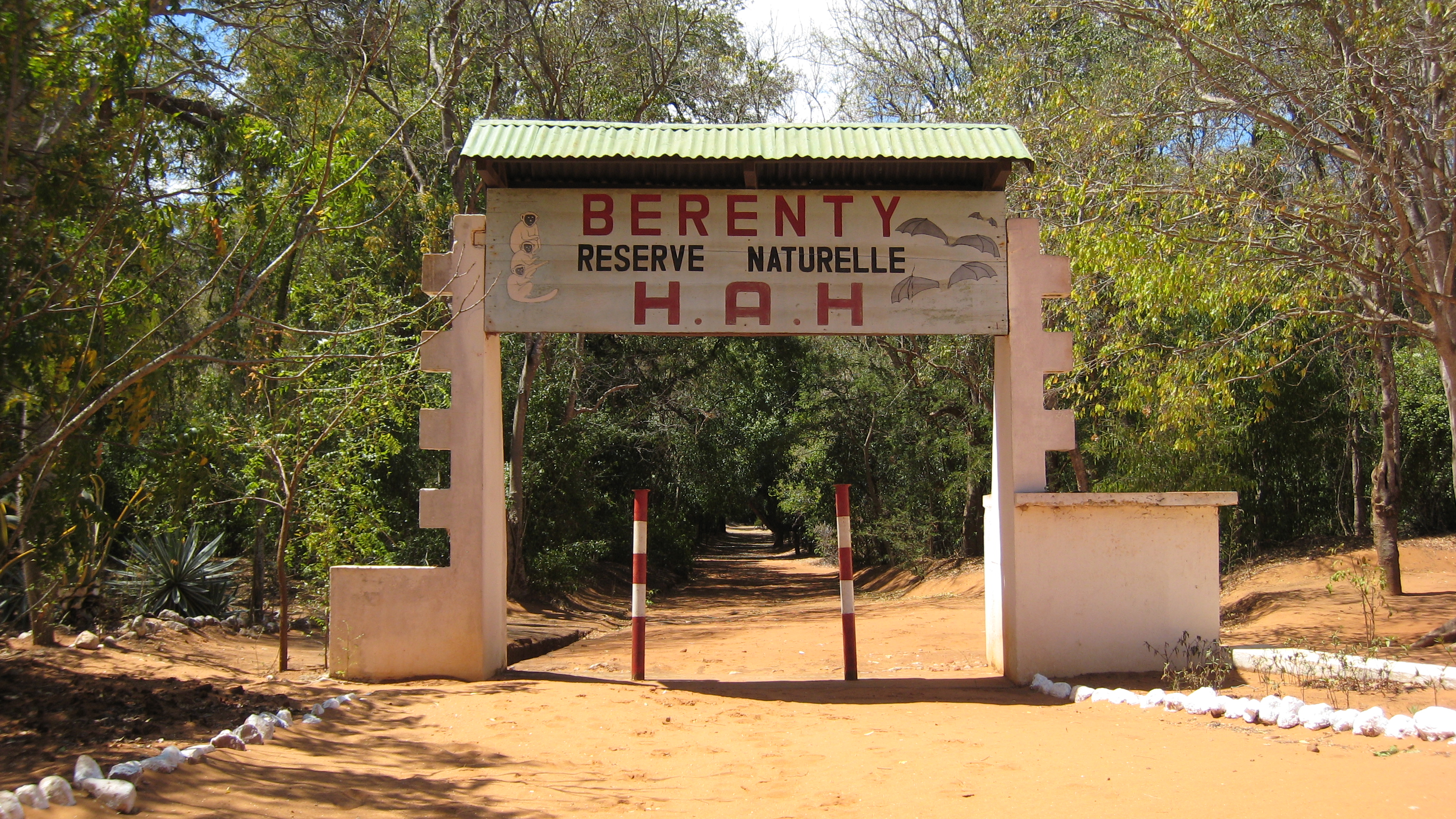 Sign at Berenty Reserve in Madagascar